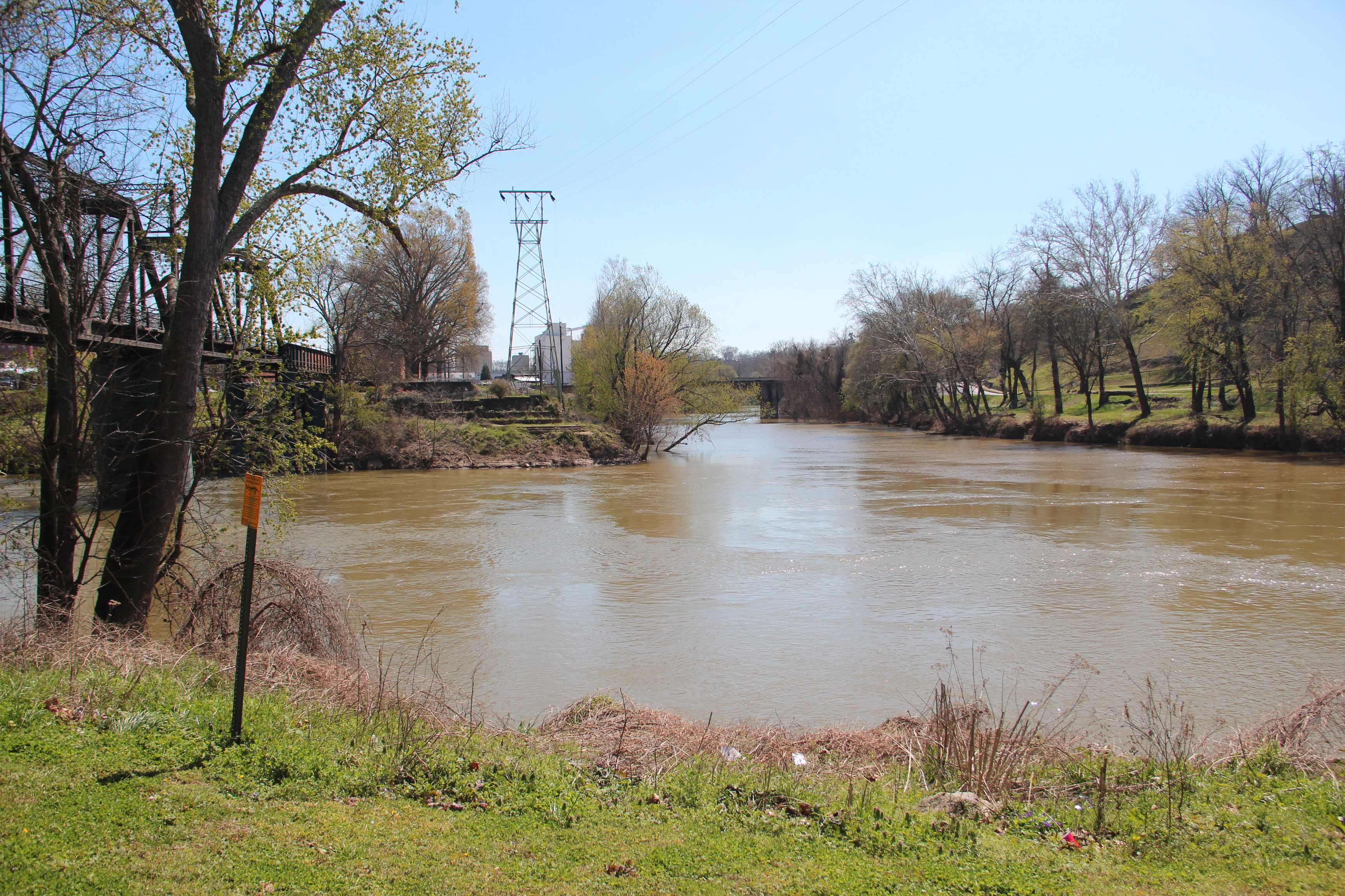 Confluence of Oostanaula and Etowah River forming the Coosa River. Viewed from the Oostanaula Levee Trail